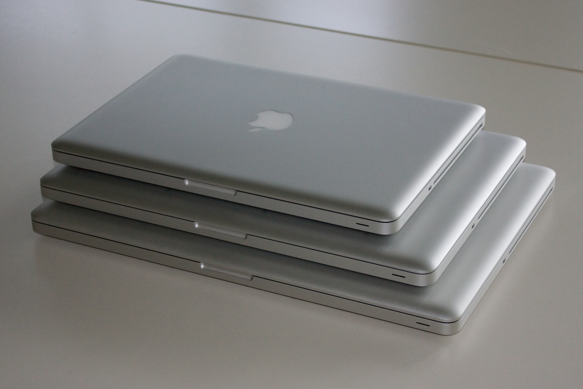 Apple MacBook Pro 13" (Mid 2009), 15" (Late 2008) and 17" (Early 2009).